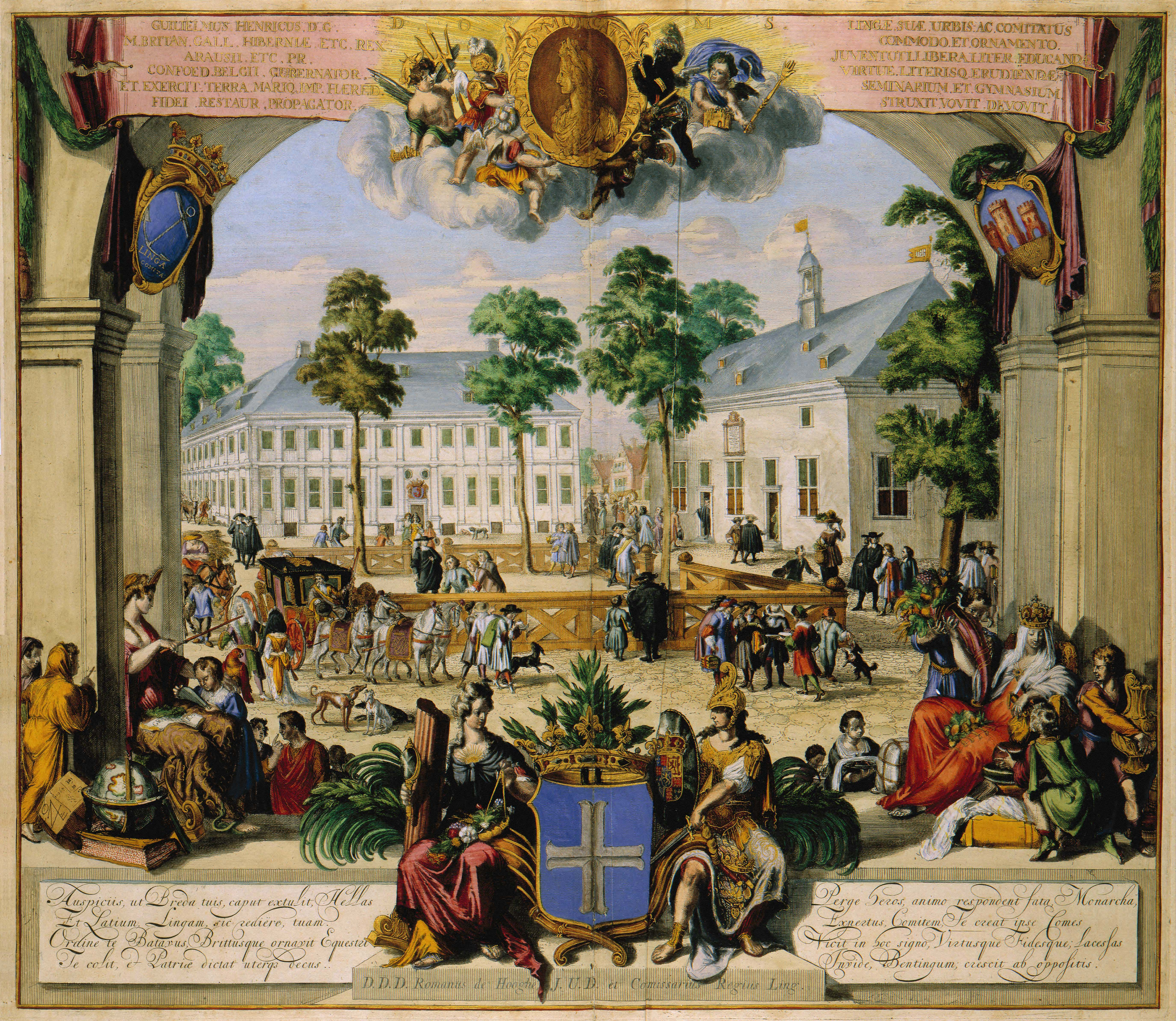 This city view of the German town Lingen was engraved by Romeyn de Hooghe (1645-1708). De Hooghe had a special relationship with the town. Stadholder William III had made him commissioner and director of the mountain works in the county of Lingen.